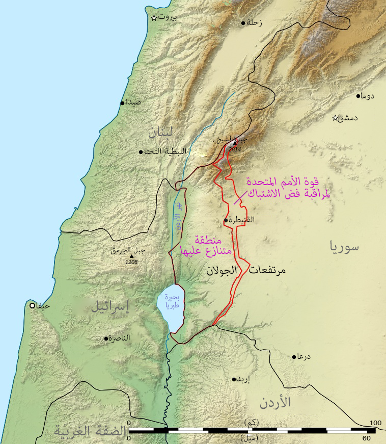 This is a shaded relief map illustrating the topography of the Golan Heights and surrounding areas. Transverse Mercator projection (EPSG: 2039) Source data: Elevation data: SRTM data from NASA[1] Borders, cities, and geographic features: The Natural Earth